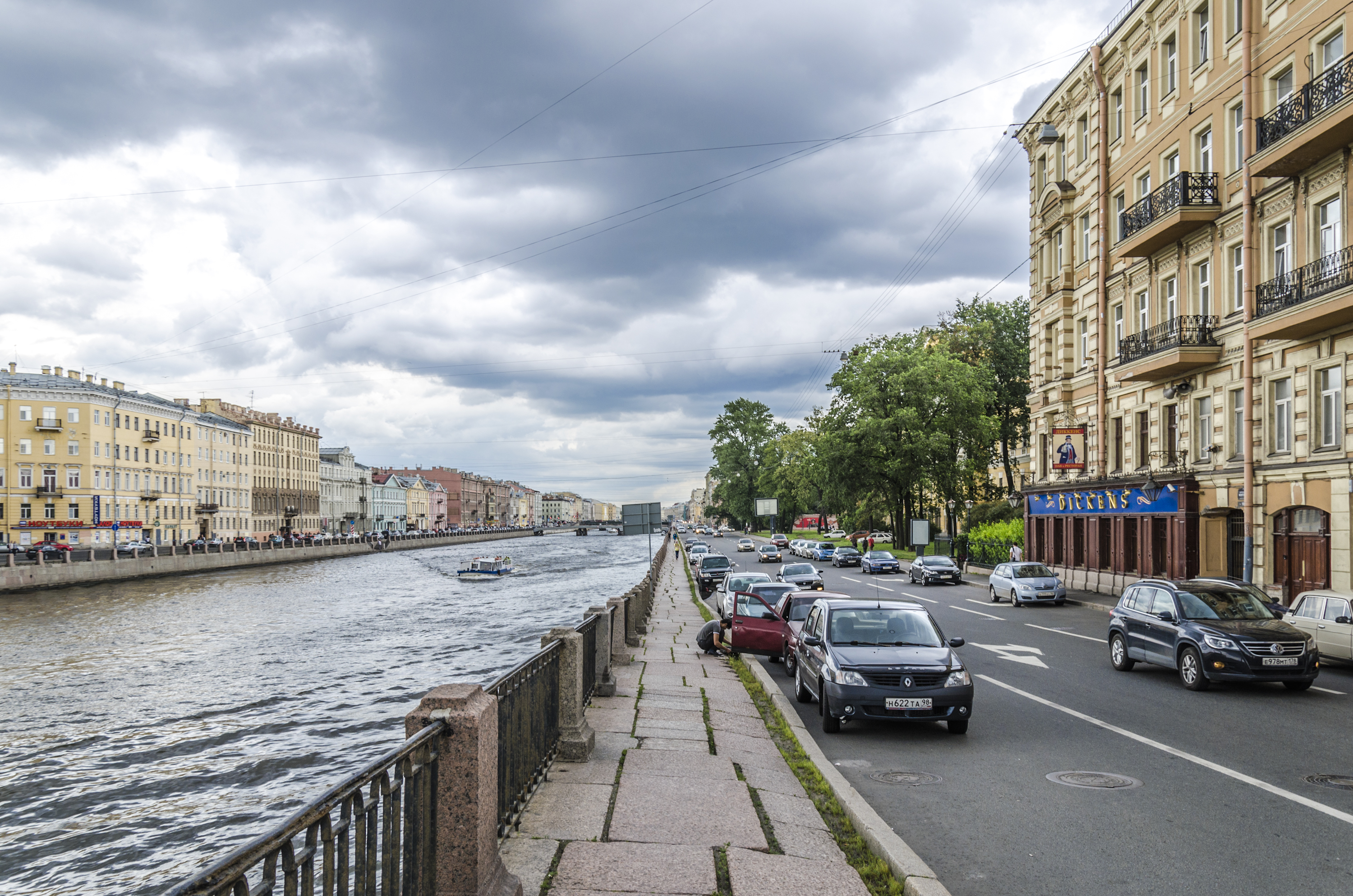 Fontanka embankment near Moskovskiy avenue in Saint-Petersburg, Russia